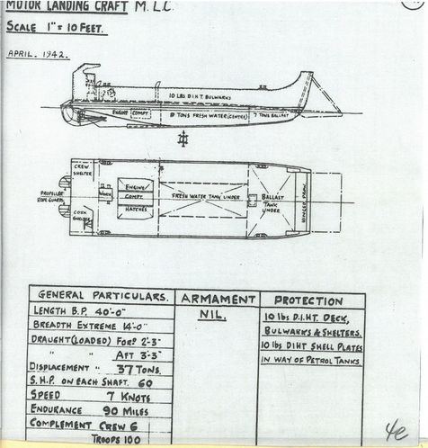 Motor landing craft print form "Combined Operation Craft" US Navy 1942.